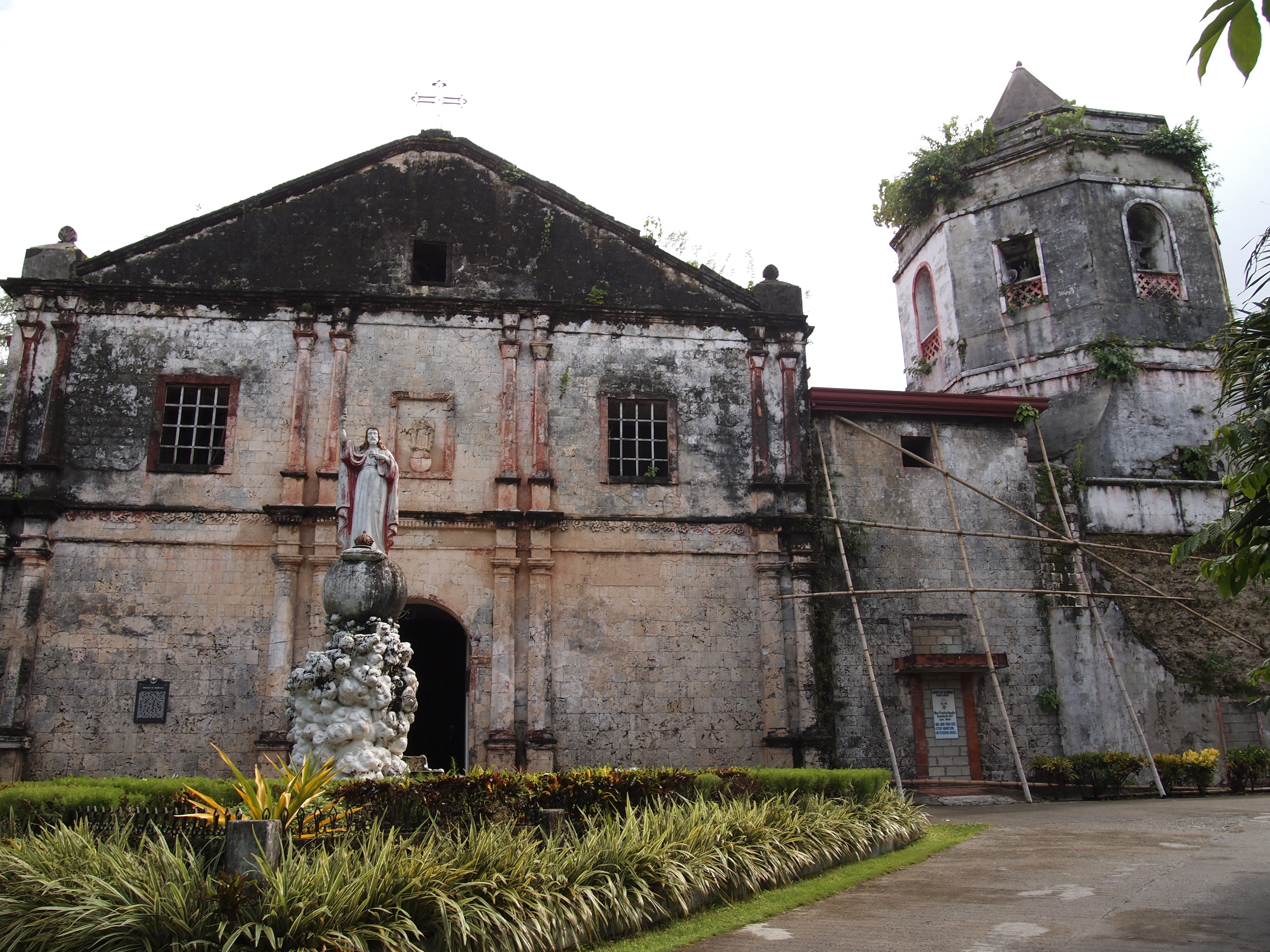 The Diocesian Shrine of San Vicente Ferrer in the town of Maribojoc. This church was built using stone and corals in 1852.